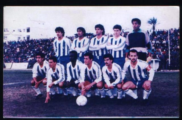 Old team in the late 80's and the begining of the 90's